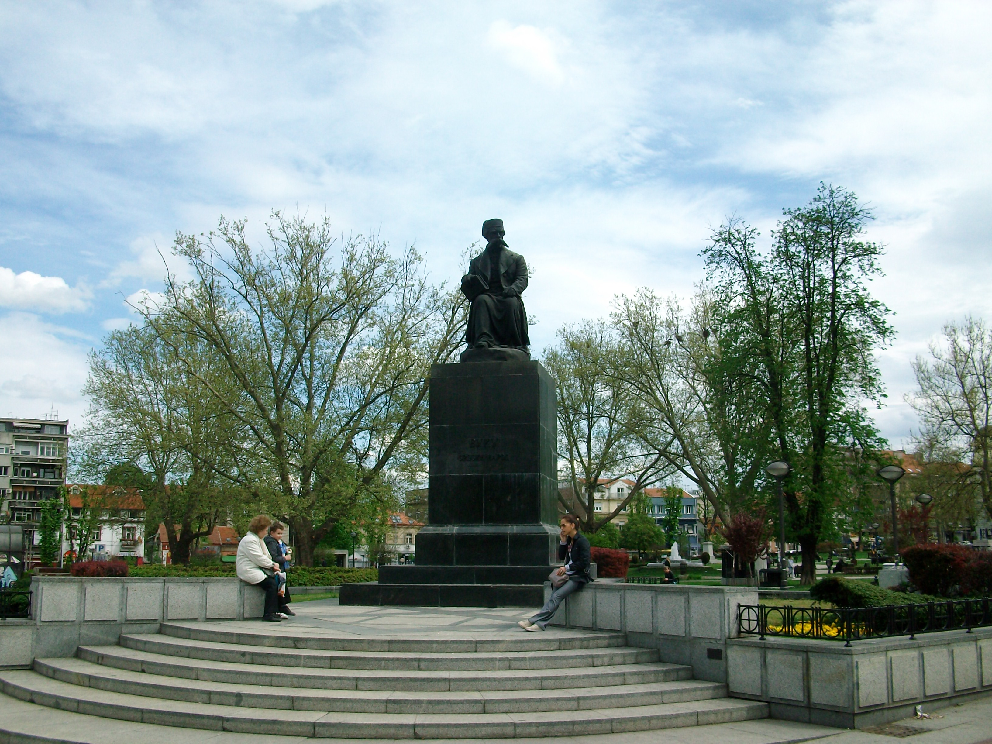 Monument of Vuk Karadzic